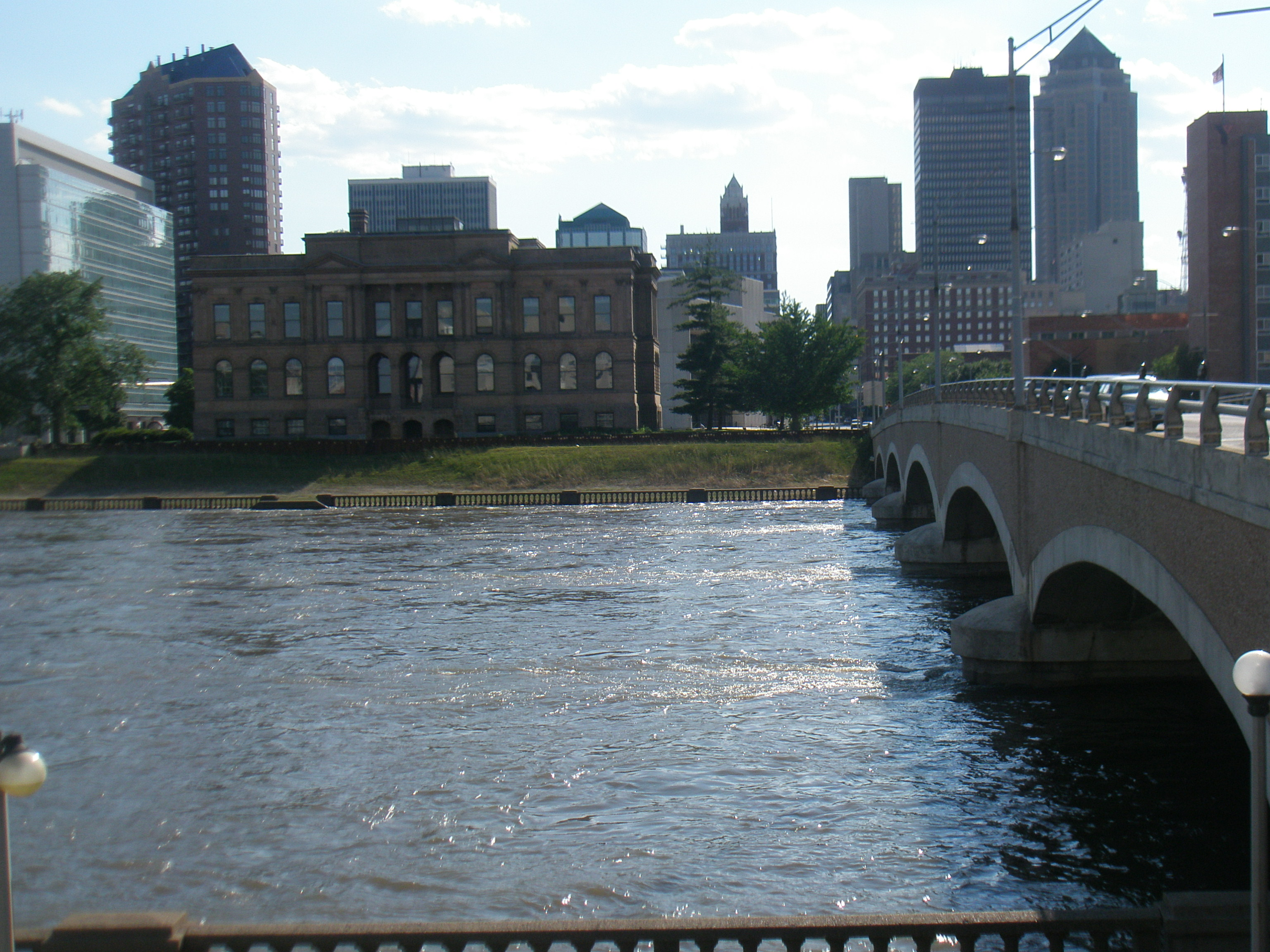 Des Moines skyline